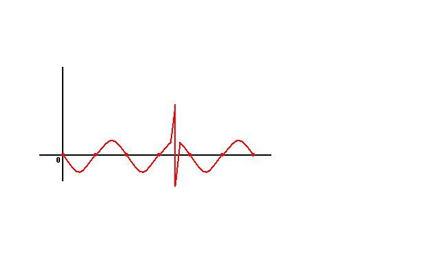 The change in the sine wave represents an electrical surge or transient. Frequency set at 60Hz.